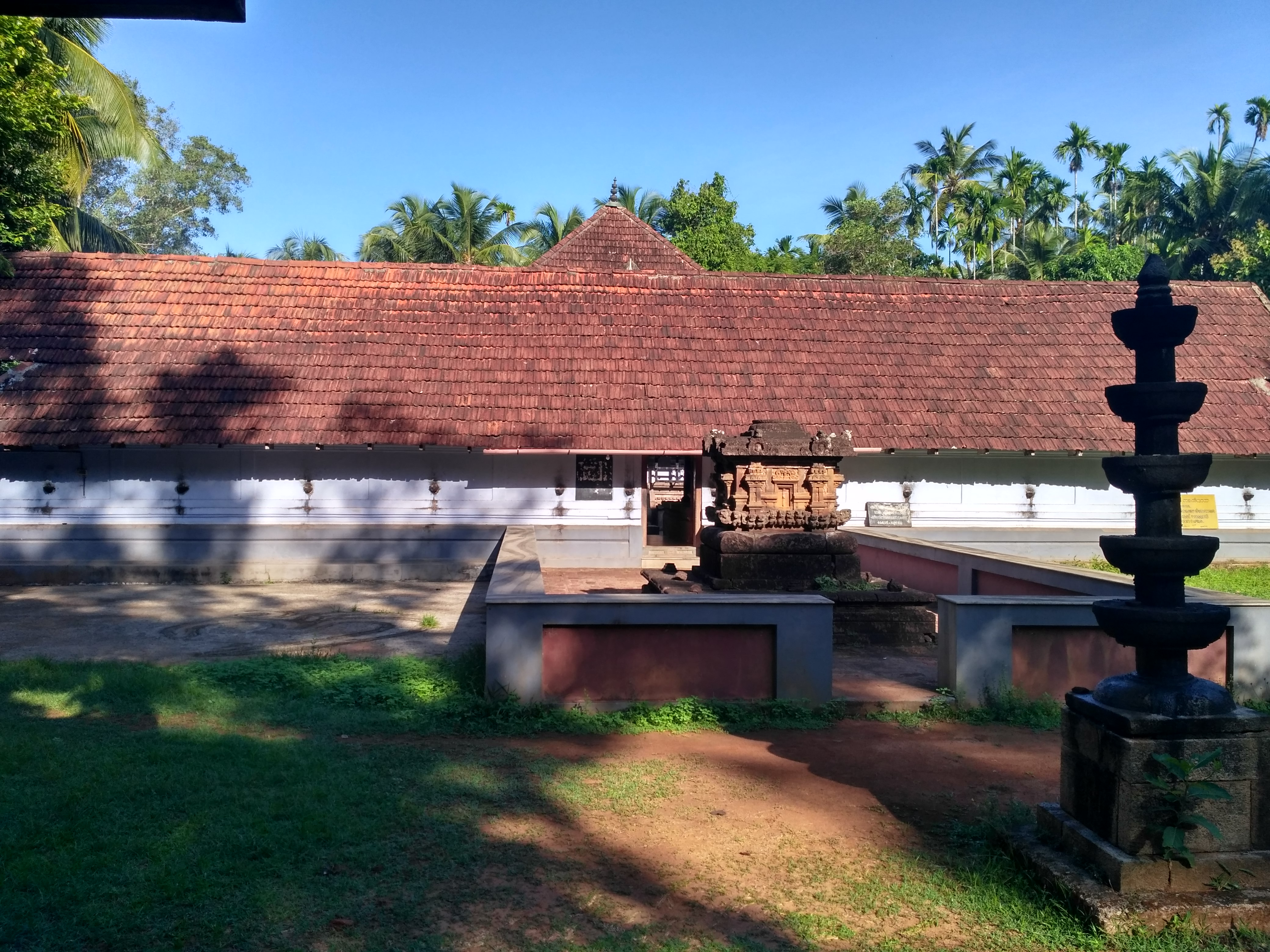 Anakkara Siva Temple